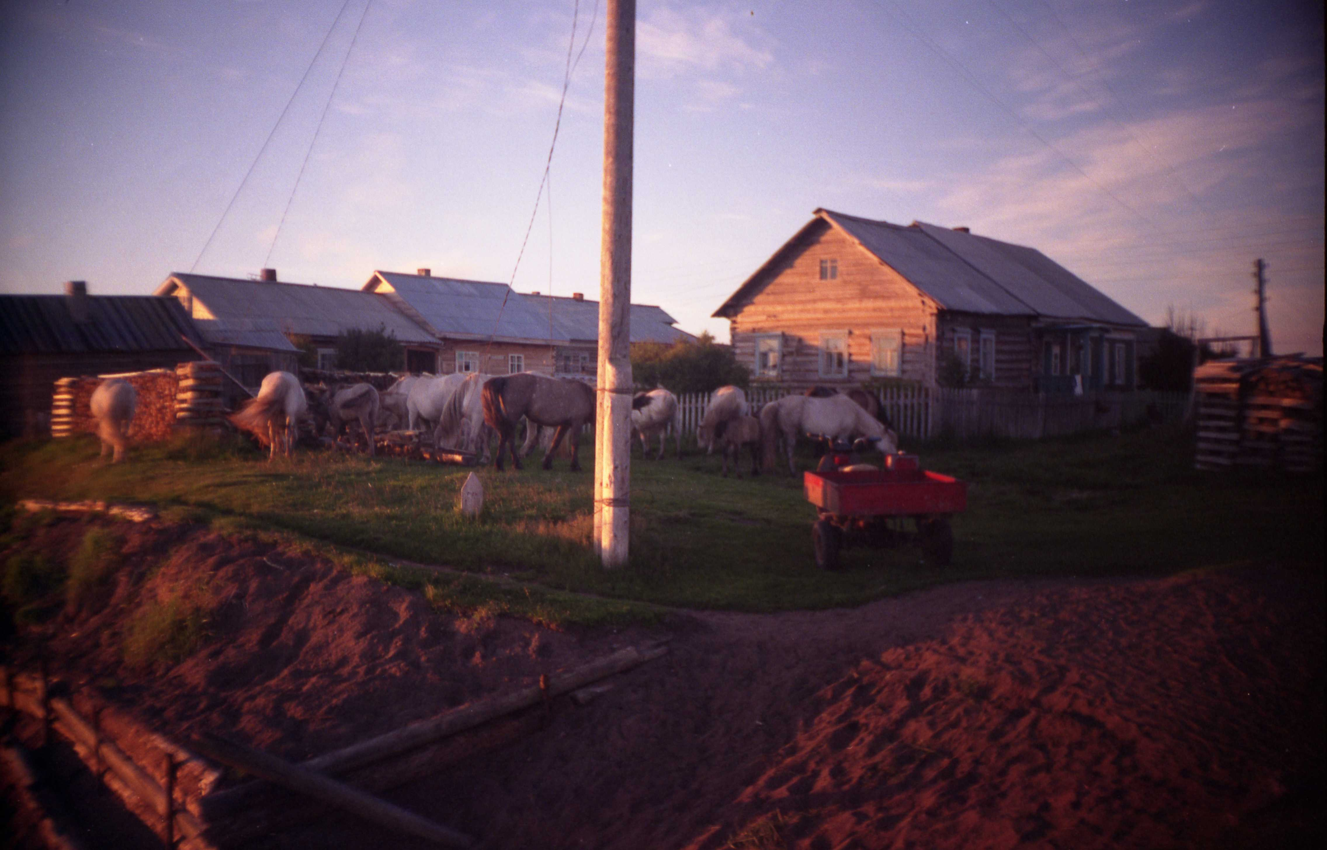 Horse behavior in Chavanga